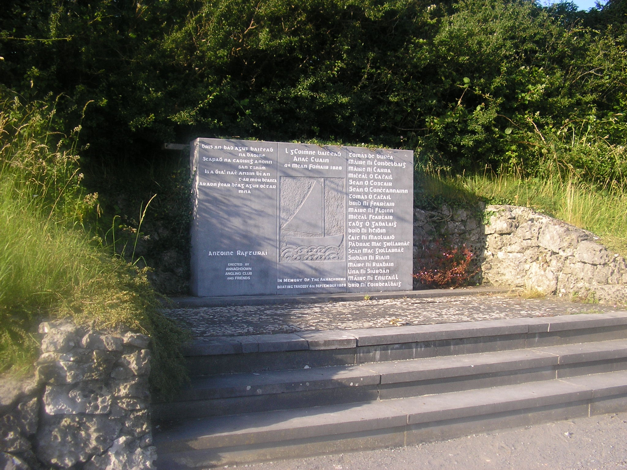 Memorial erected in rememberance of the 20 people from Annaghdown parish who drowned on 4th September 1828 at Menlo, Galway. The memorial was erected at Annaghdown Pier in 1978 by Annaghdown Angling Club and friends.